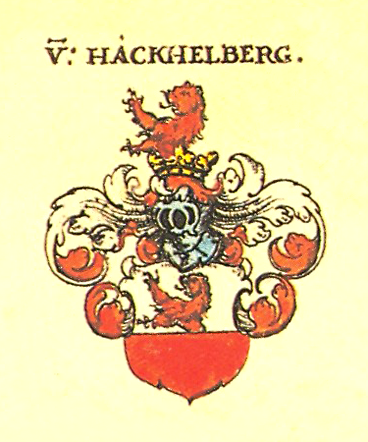 Coats of Arms of Haeckelberg (Häcklberger)